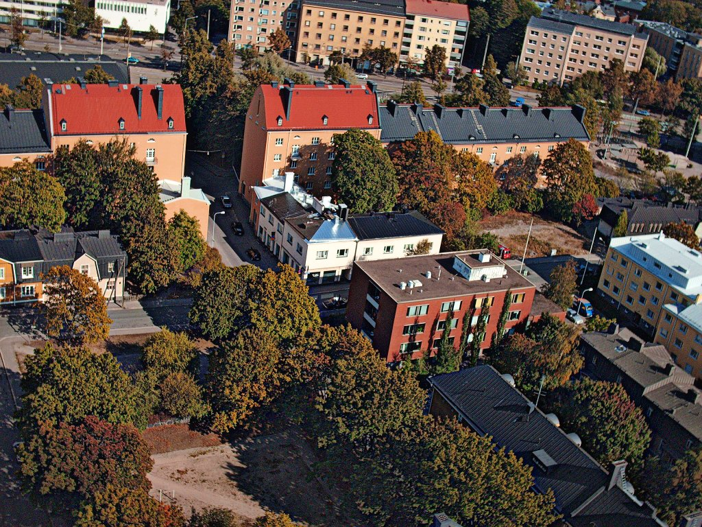 View from Vallila, Hämeentie street on the upper side of the picture Just the right amount of shadow-only retinexing makes them trees look real.